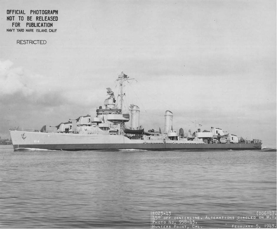 February 5 1943 at Hunters Point. Photo from NARA San Francisco, Mare Island Naval Shipyard Ship Files.